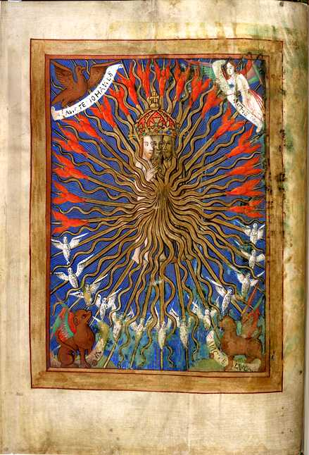 This is a remarkably large and lavishly illuminated Book of Hours, combining French and English styles. The first leaf contains a list of obits members of the royal family and of the 4th, 5th, and 6th Earls of Ormond and their wives, so it was probably made for Anne Boleyn's grandfather, Thomas Butler (1426-1515), 7th Earl of Ormond, or a member of his family. It was given in the early 16th century to a chapel at 'Suthwyke', probably Southwick in Hampshire. The second of two miniatures of the Trinity shows the Three Persons, apparently naked except for a crown they share, 'clothed' by golden rays of heavenly light, and surrounded by angels and the symbols of the Four Evangelists.